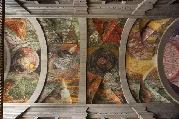 Església de Santa Maria de l'Alba; Tàrrega, Catalunya, Lleida, Spain; ; Ref: PM_095747_E_Tarrega; ; Josep Minguell Cardenyes; © Paul M.R. Maeyaert; ; Cultural heritage; Europeana; Europe/Spain/Tàrrrega